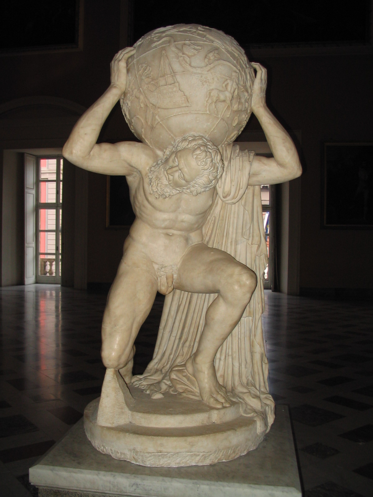 Naples Archaeological Museum Picture of Sculpture of Atlas with Farnese Globe on his shoulders. Roman Copy of Hellenistic original, 2nd Century AD.